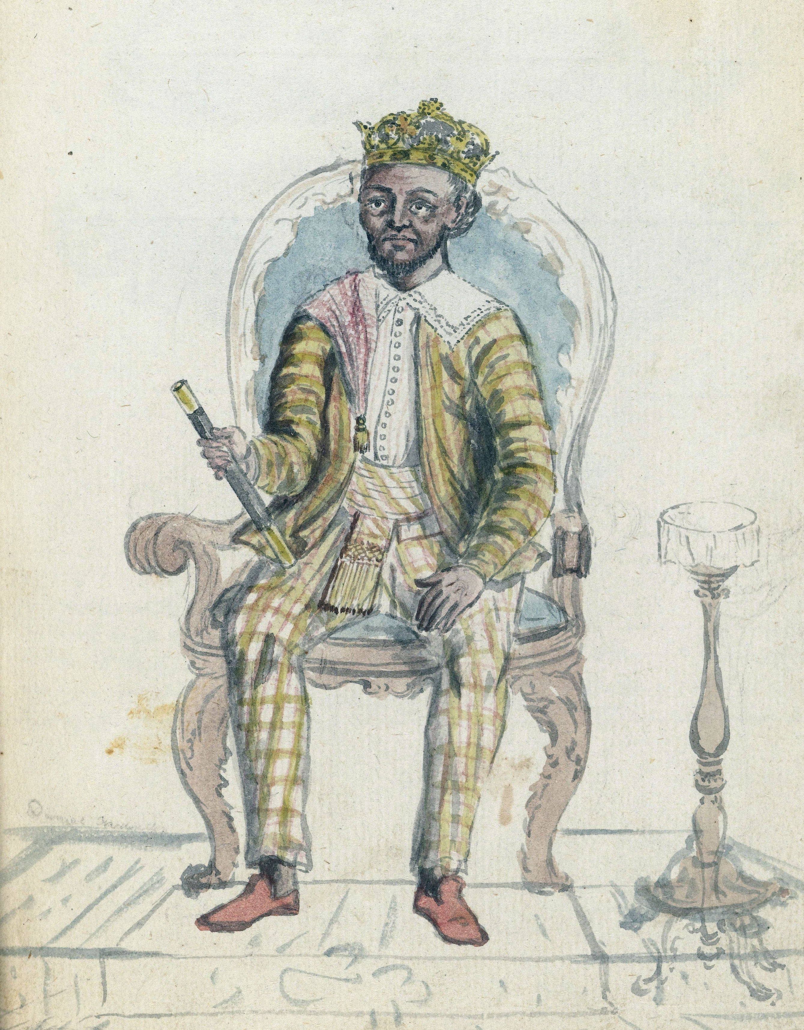 Sri Rajadhi Raja Sinha, king of Kandy (reigned 1782-1798) on his throne. Part of the sketchbook of Jan Brandes.